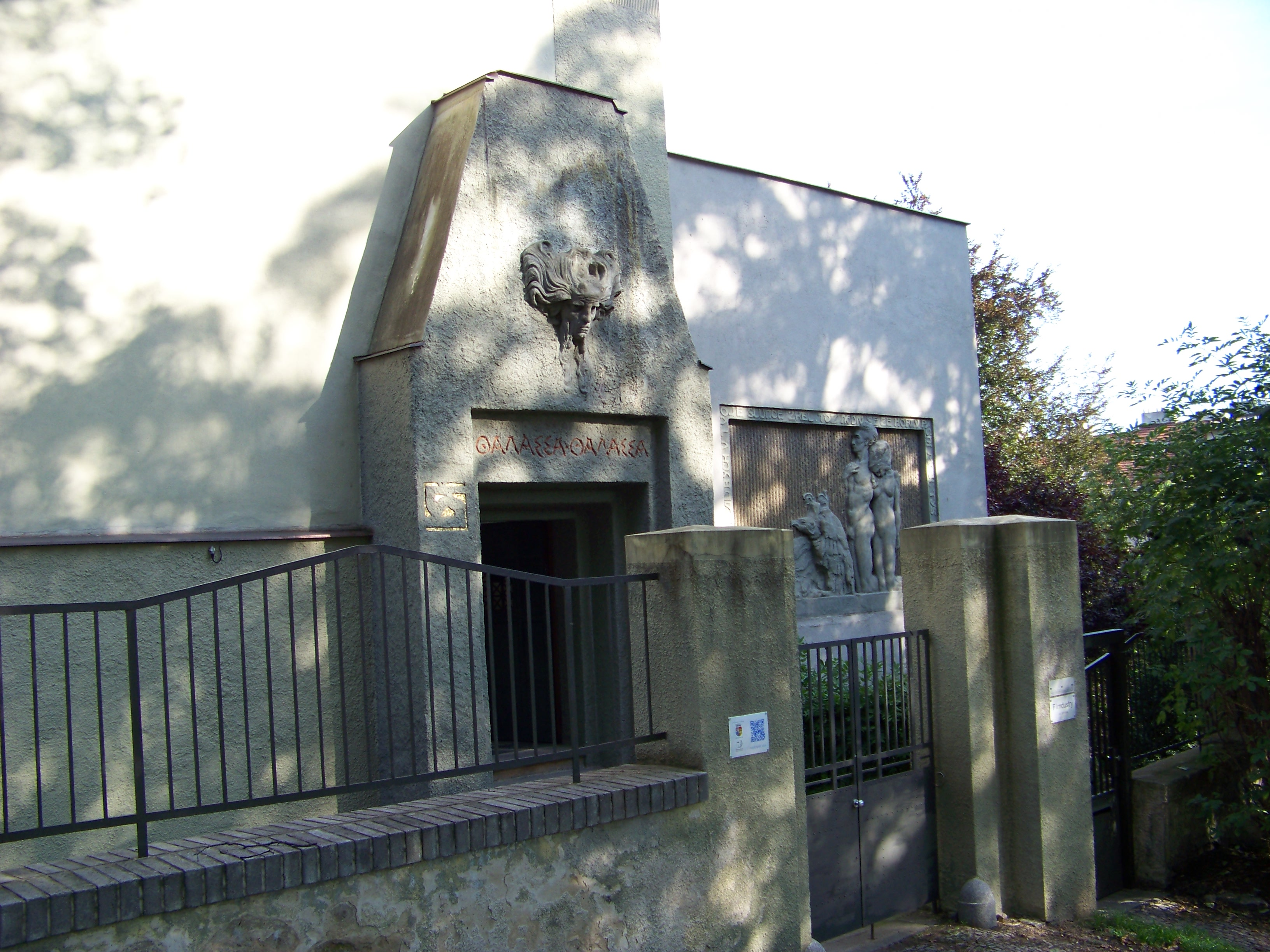 Prague-Vinohrady, the Czech Republic. Slovenská 1566/2, a villa (atelier) of Ladislav Šaloun.